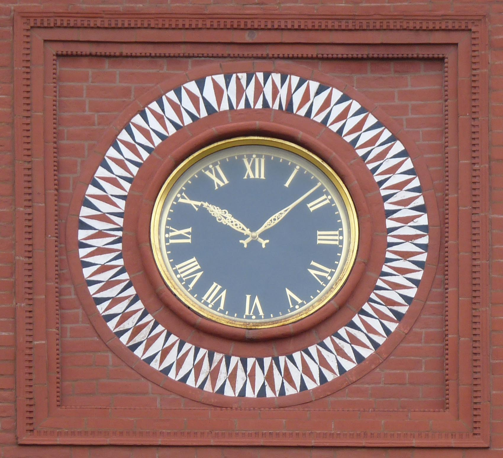 Moscow Kremlin Trinity Tower clock a